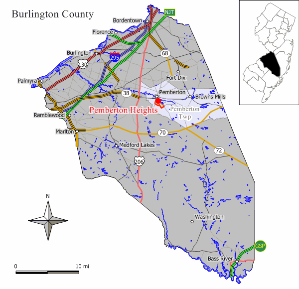 Source: Jim Irwin Original work by Jim Irwin, December 2005.